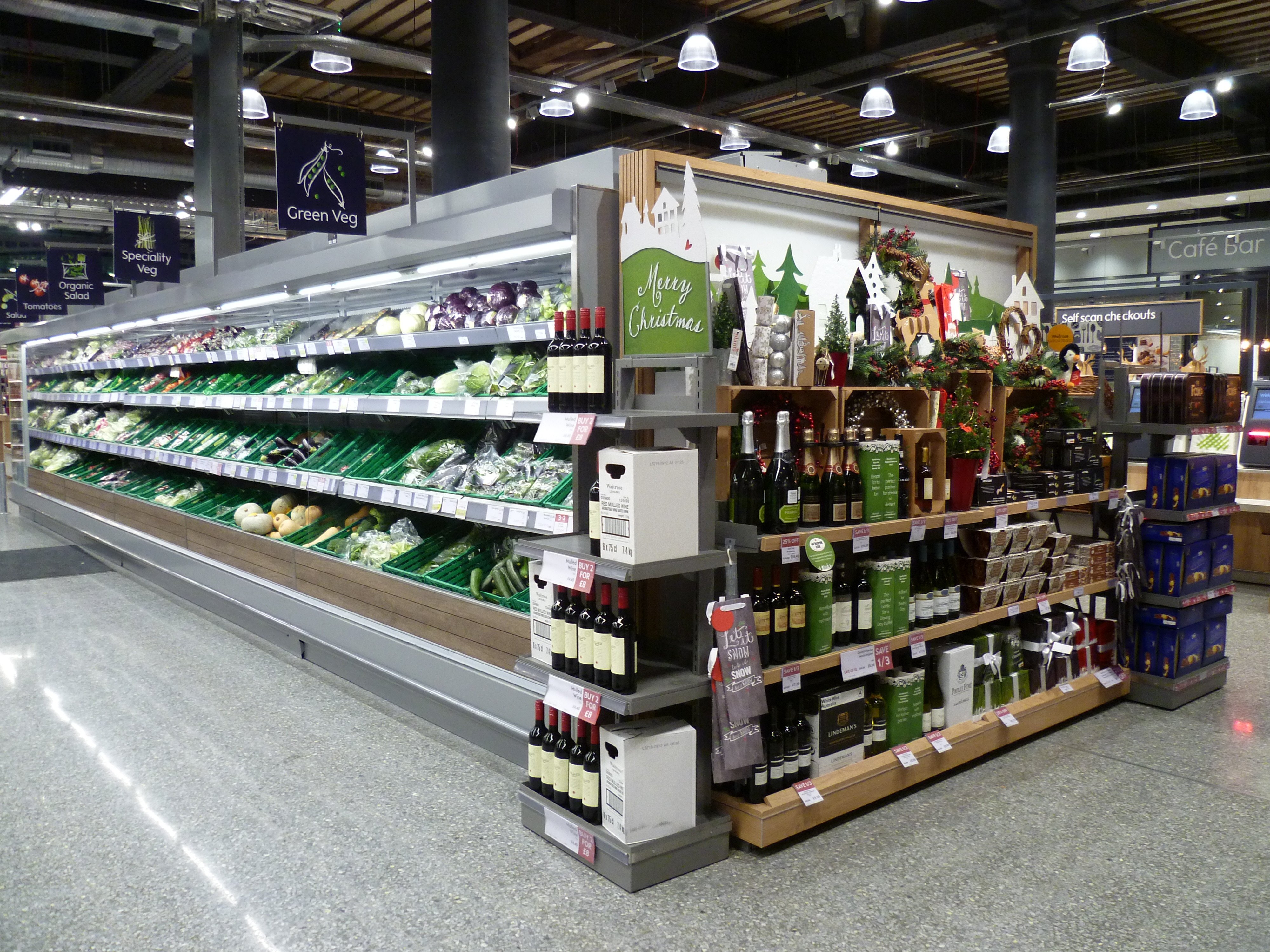 Waitrose, Wharf Road, King's Cross